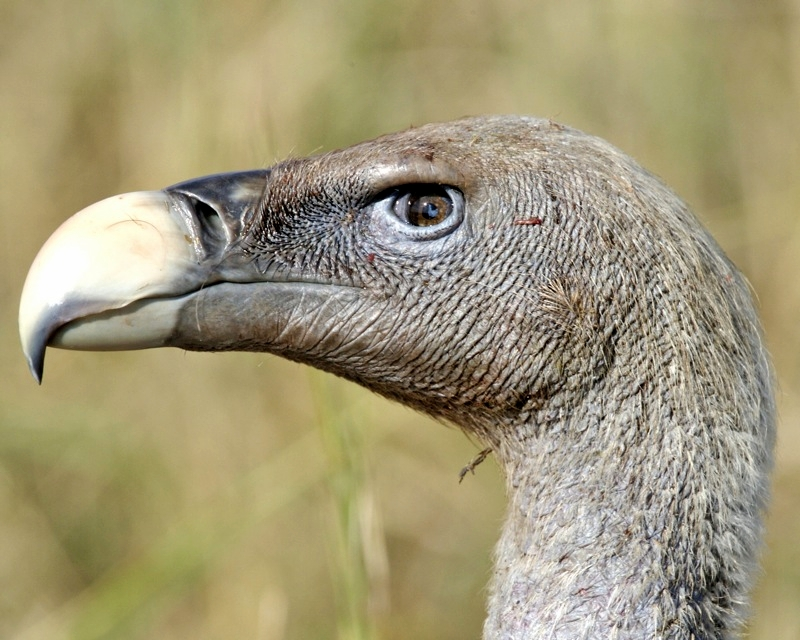 Head of an adult Rüppell's vulture, photographed at Masai Mara, Kenya, on August 29, 2008, 690V1195